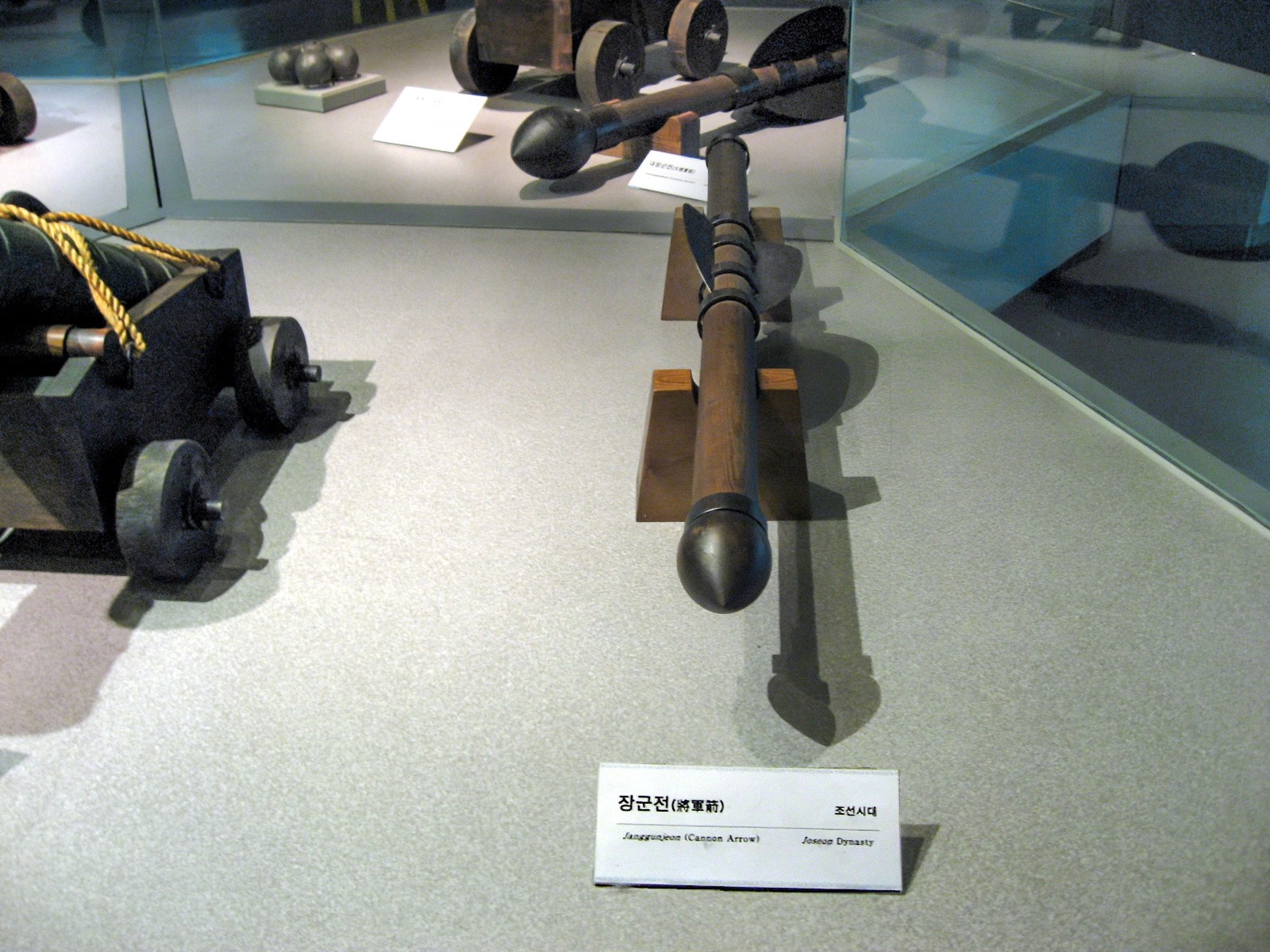 Joseon era cannon arrow